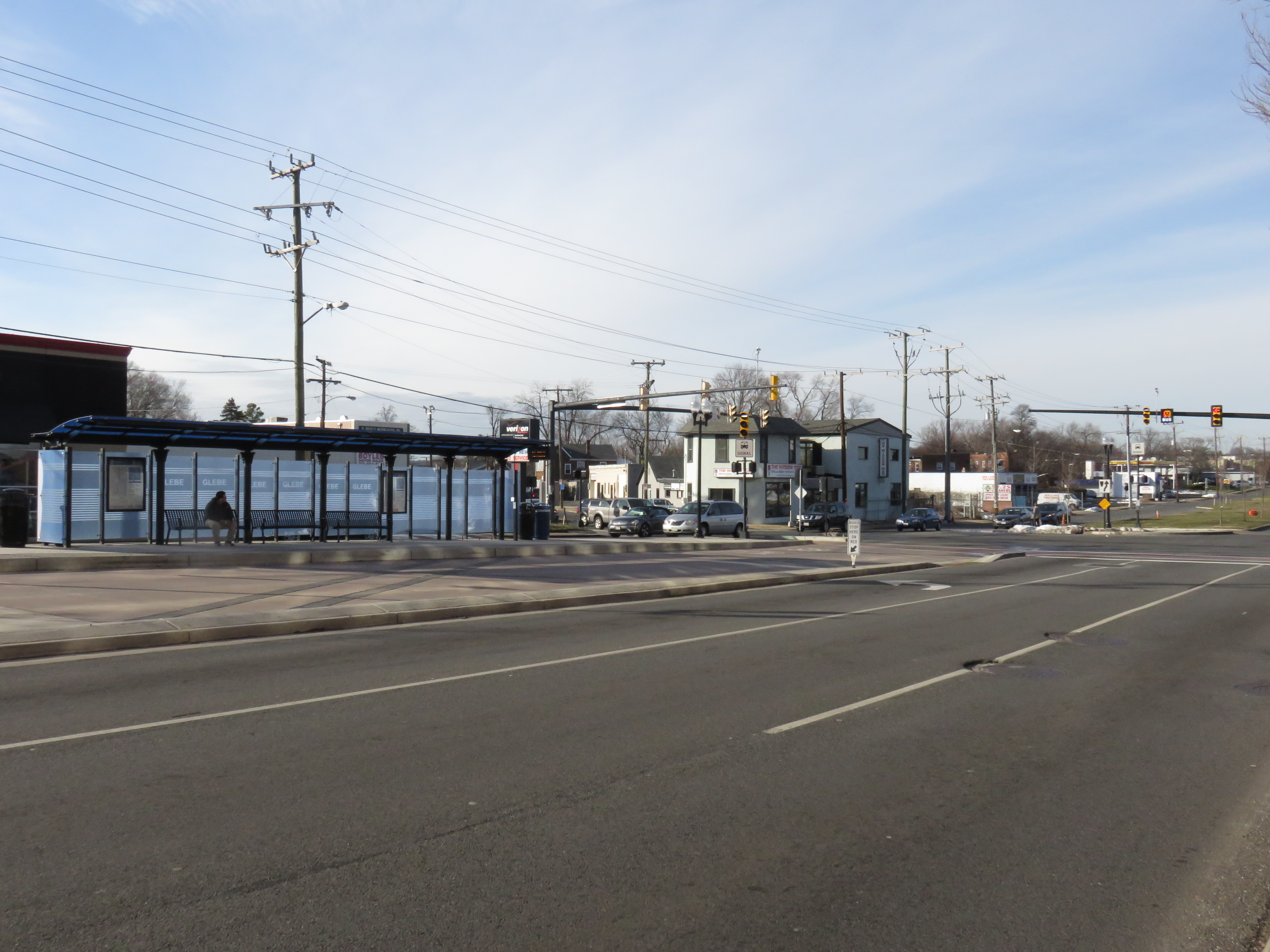 Southbound platform of East Glebe Metroway station in Potomac Yard, Alexandria, Virginia in February 2016